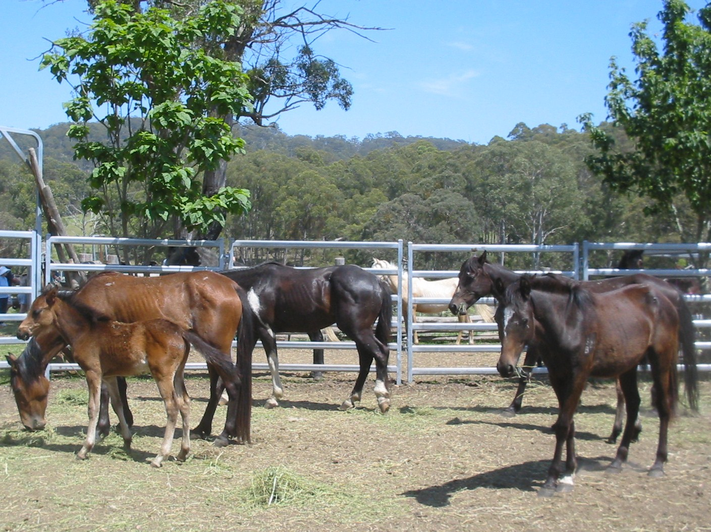 Freshly yarded Brumbies awaiting sale and new homes.